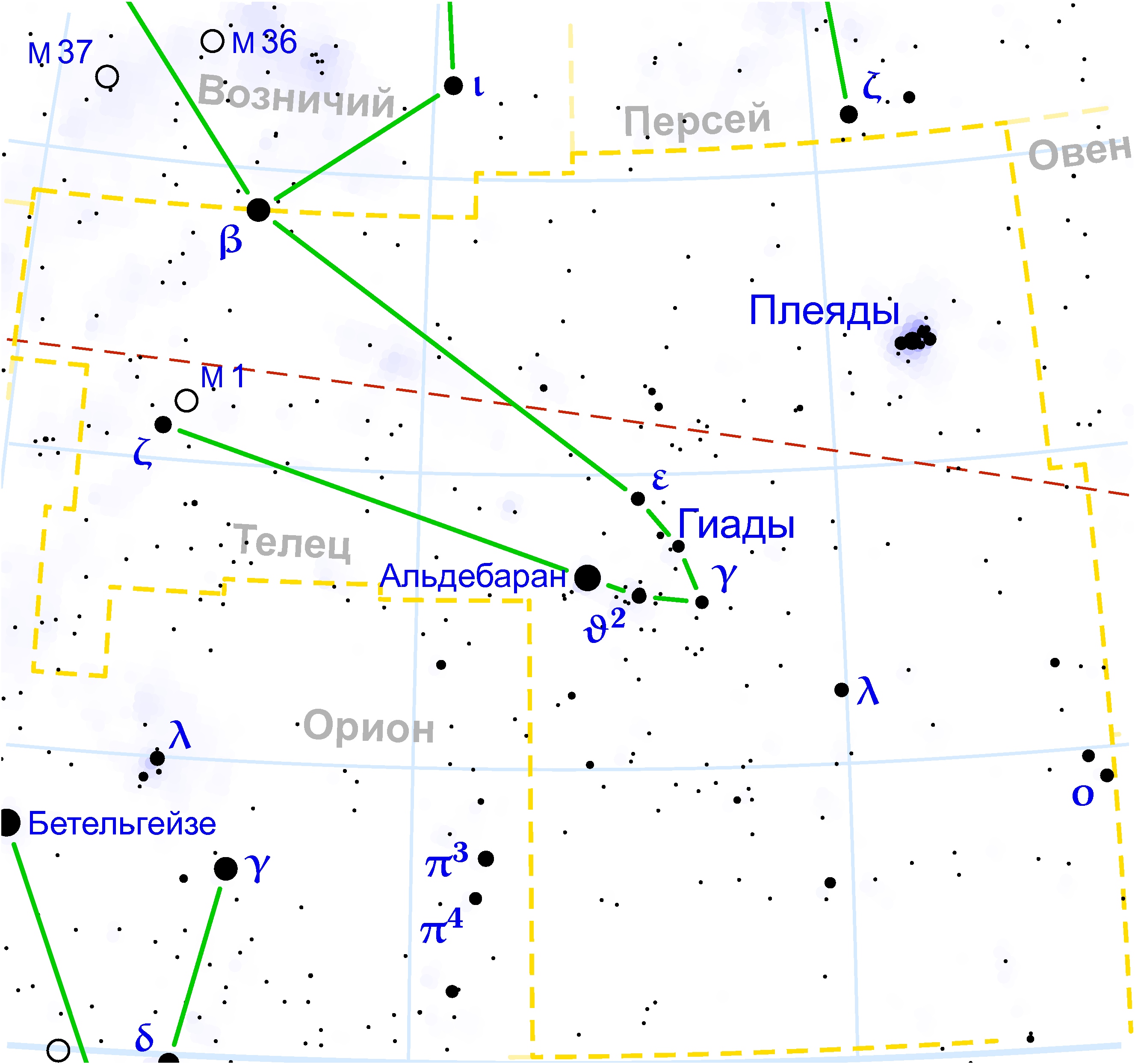 Taurus constellation map in Russian